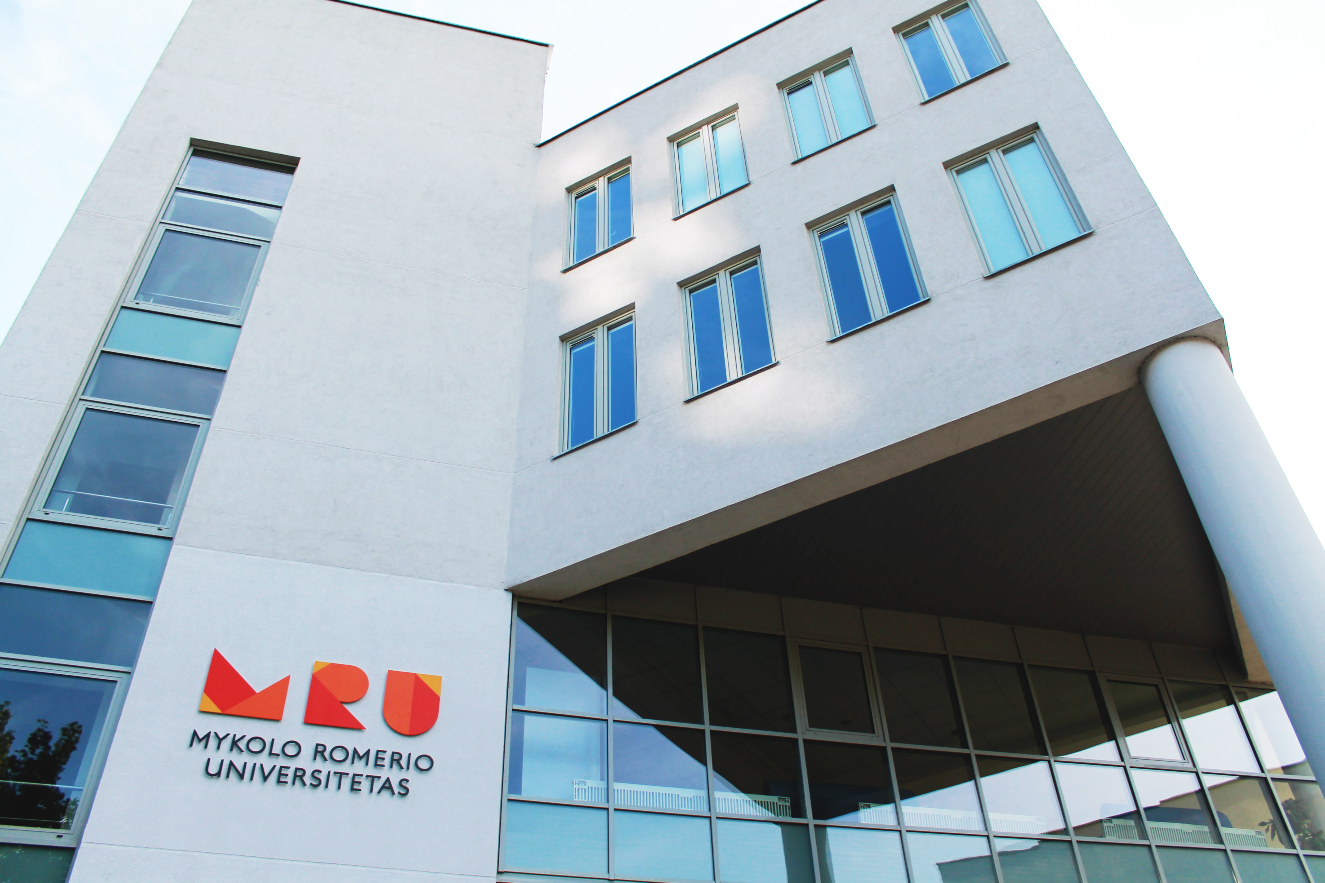 MRU Central Campus